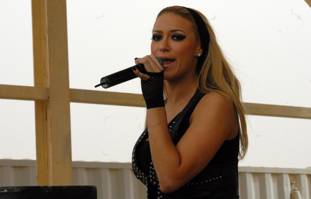 Singer Kaya Jones performs for the Soldiers assigned to Contingency Operating Station Endeavor, Iraq, Feb. 24, 2010. Jones, a former member of the Pussycat Dolls, signed autographs and posed for pictures after her performance.